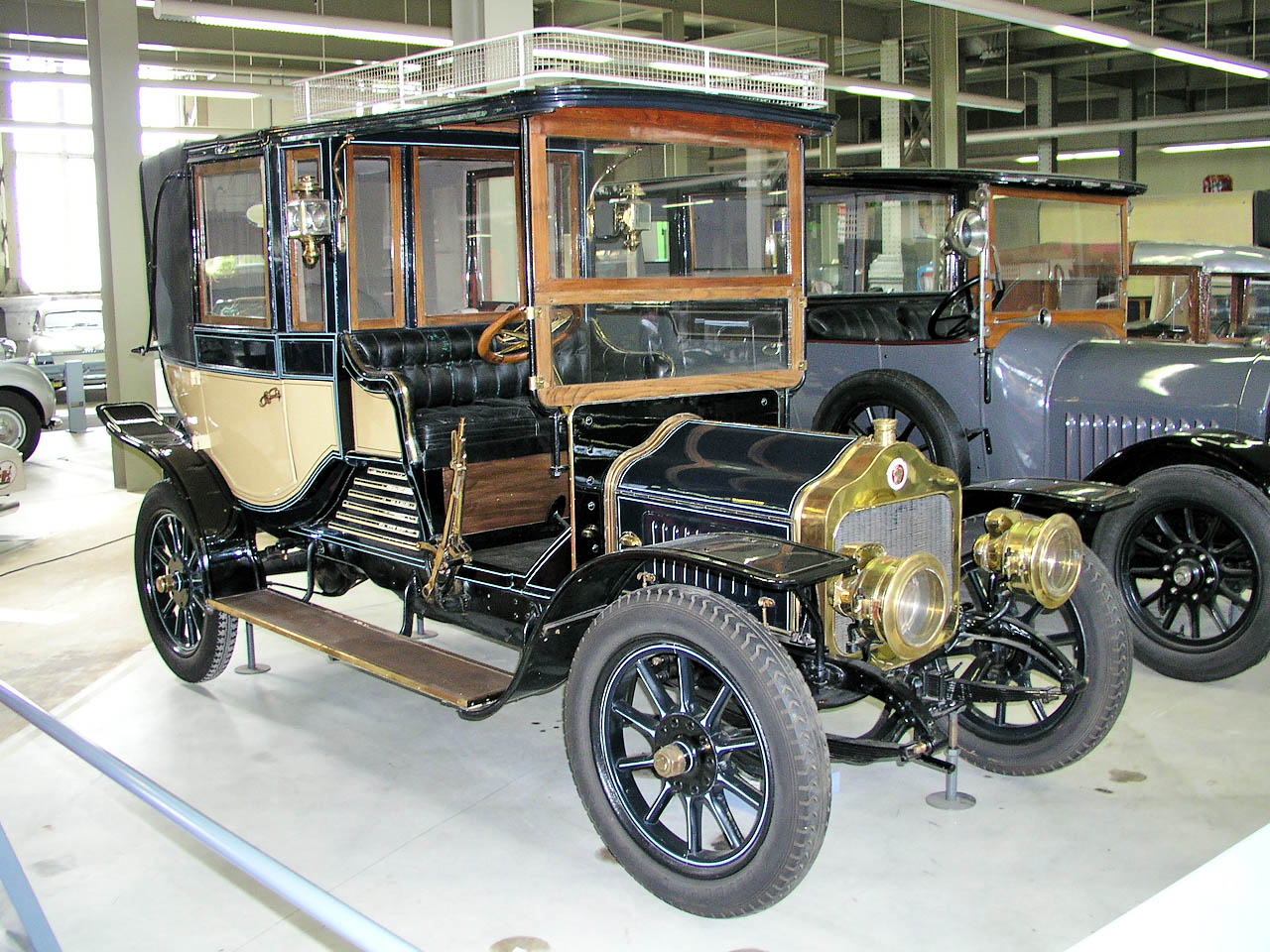 16 HP model powered by a 2323 cc 4-cylinder monobloc engine with sleeve-valves, made in Belgium by Minerva Motors SA; front right-side view